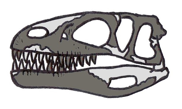 Skull of the theropod dinosaur Dubreuillosaurus.